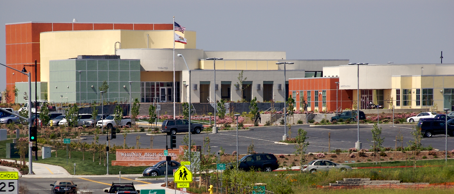 Whitney High School in Rocklin, California as seen from the south on Wildcat Boulevard.